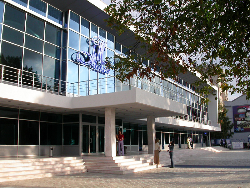 Music Theatre in Krasnodar